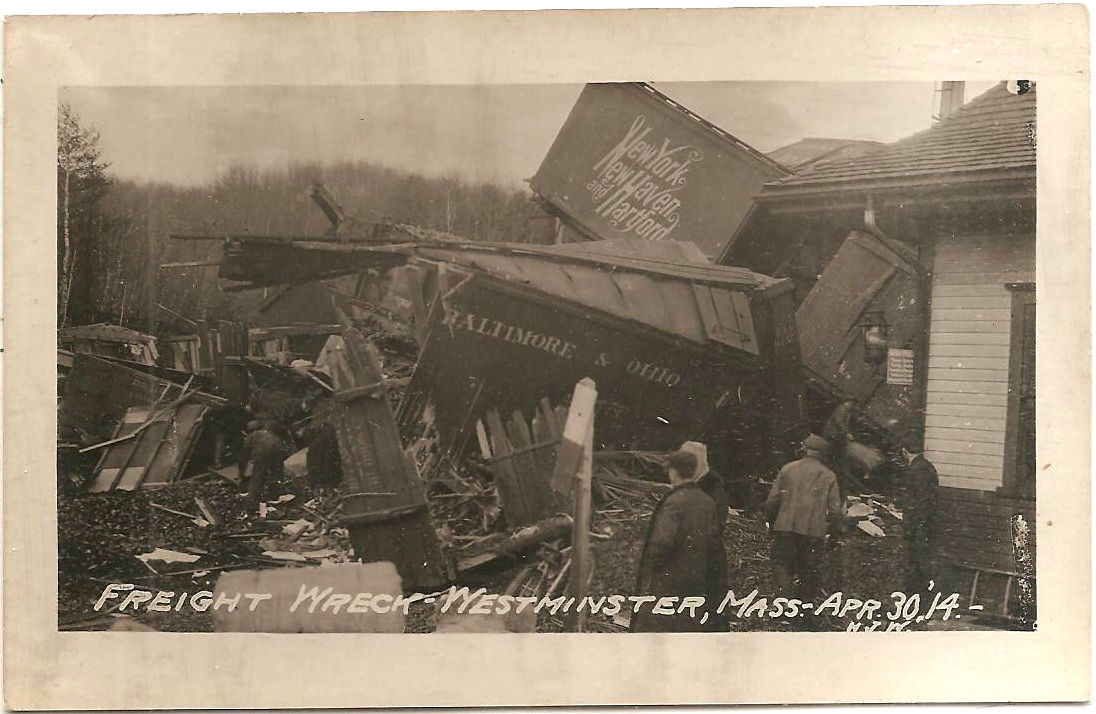 Early divided back postcard of a 1914 freight wreck at Westminster station